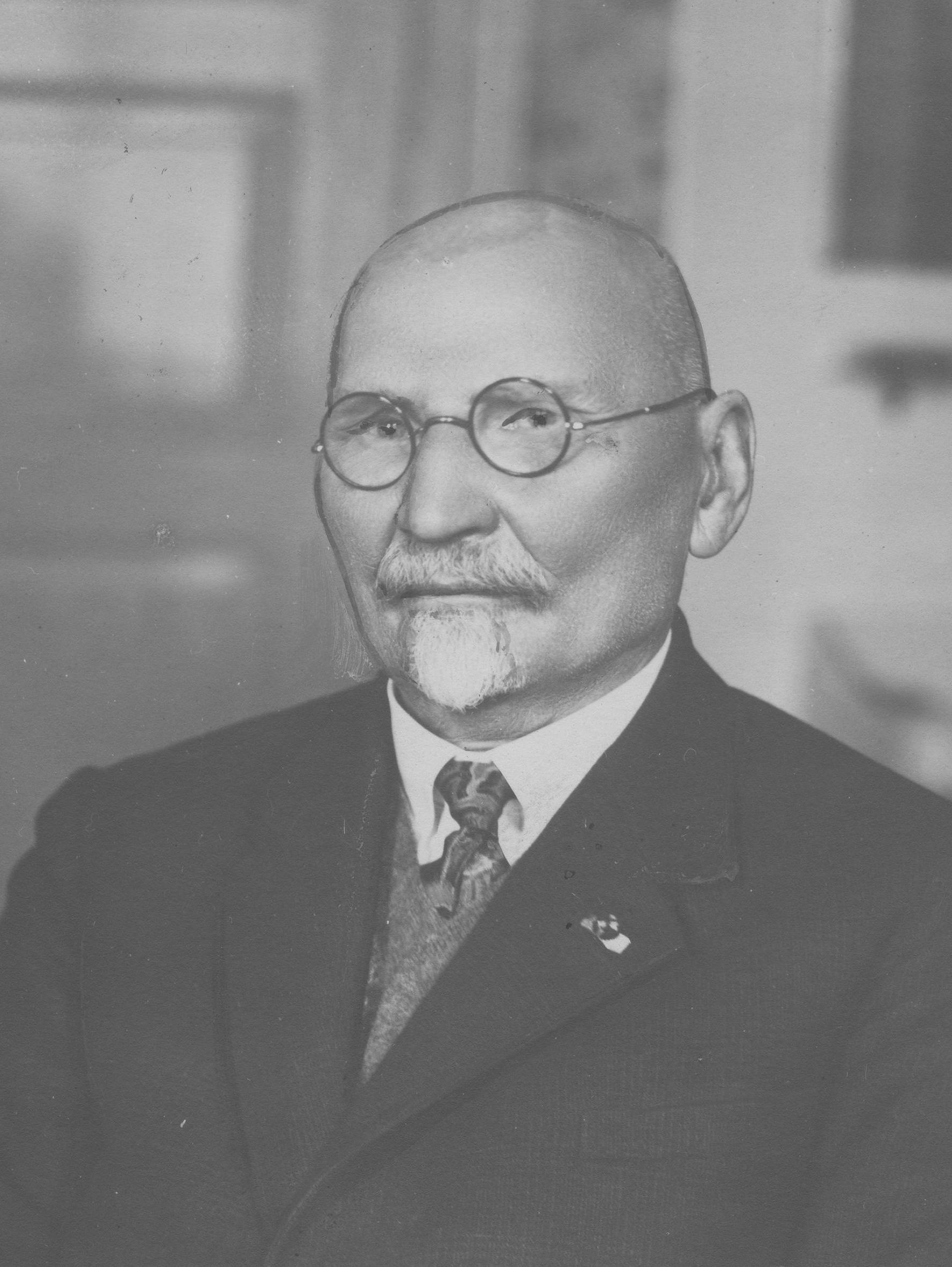 Leon Wyczółkowski (11 April 1852 – 27 December 1936), one of the leading painters of the Young Poland movement, and the principal representative of Polish Realism in art of the period.